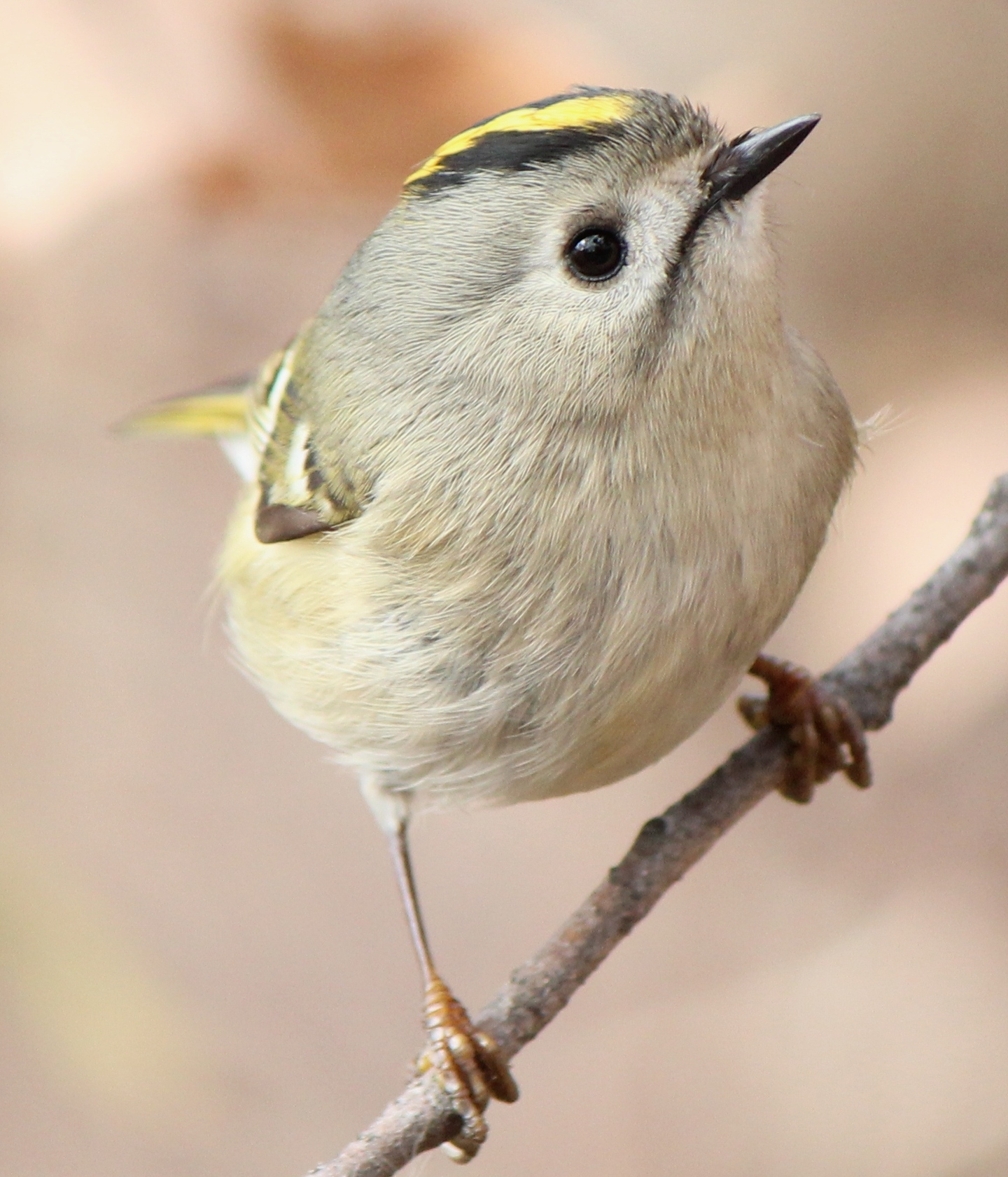 Regulus regulus japonensis (Goldcrest), face, in Japan.